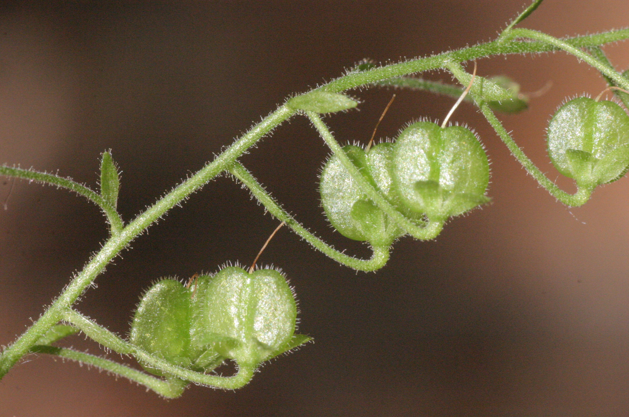 Veronica urticifolia